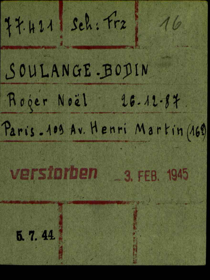 Registration card of Roger Soulange-Bodin as a prisoner at Dachau Nazi Concentration Camp.